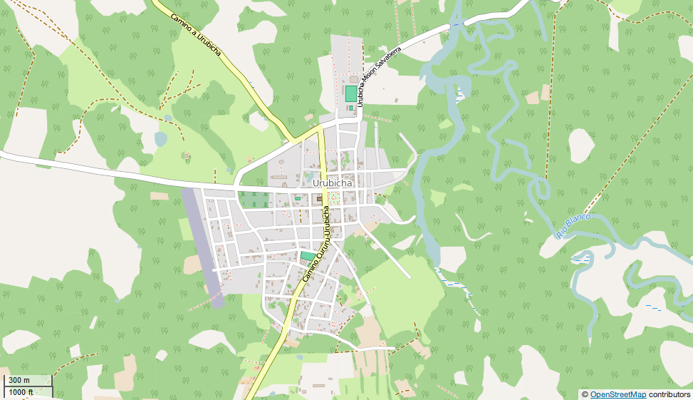 Urubichá/Bolivia street map